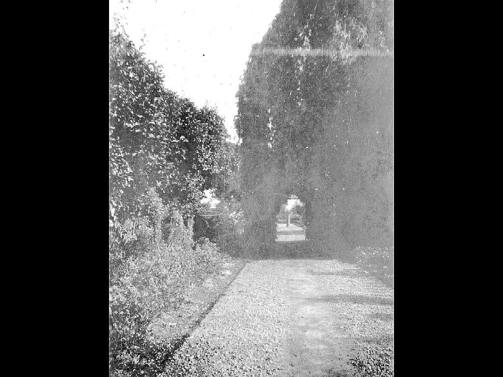 Balconie Castle garden and stables